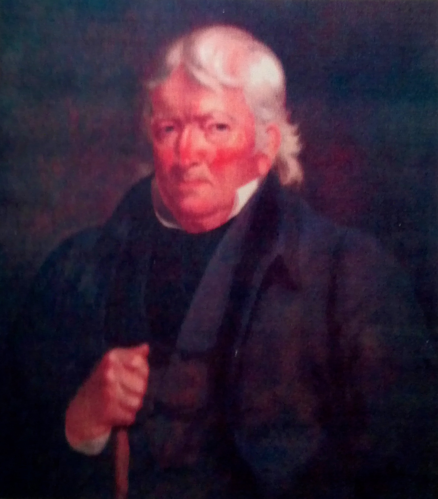 Painted portrait of Major John Buchanan (1759-1832), an 18th-century settler of Nashville. Tennessee State Library and Archives Portrait Collection 1700-1960, Portrait No. 183.